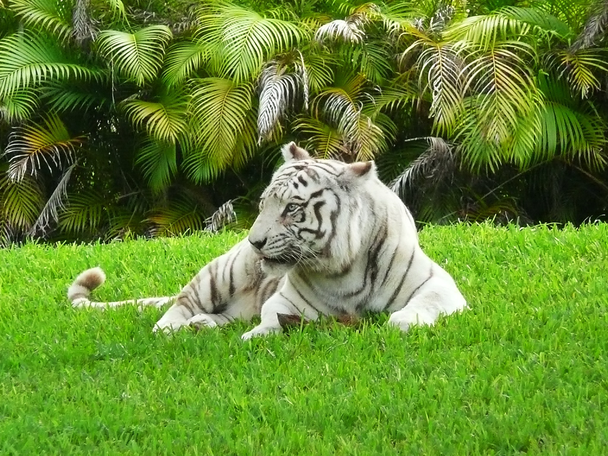 Digital photo taken by Marc Averette. White Bengal tiger at Miami's MetroZoo.